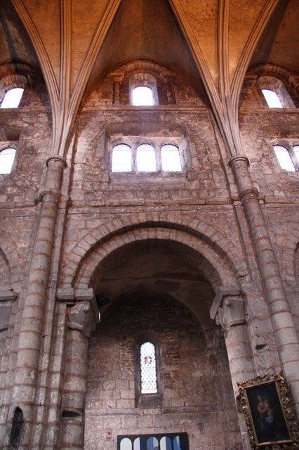 St.Mary & St.Martin's nave Arcade and double clerestorey 1088-1100 with early 13th century vaulting in St.Mary & Martin's nave